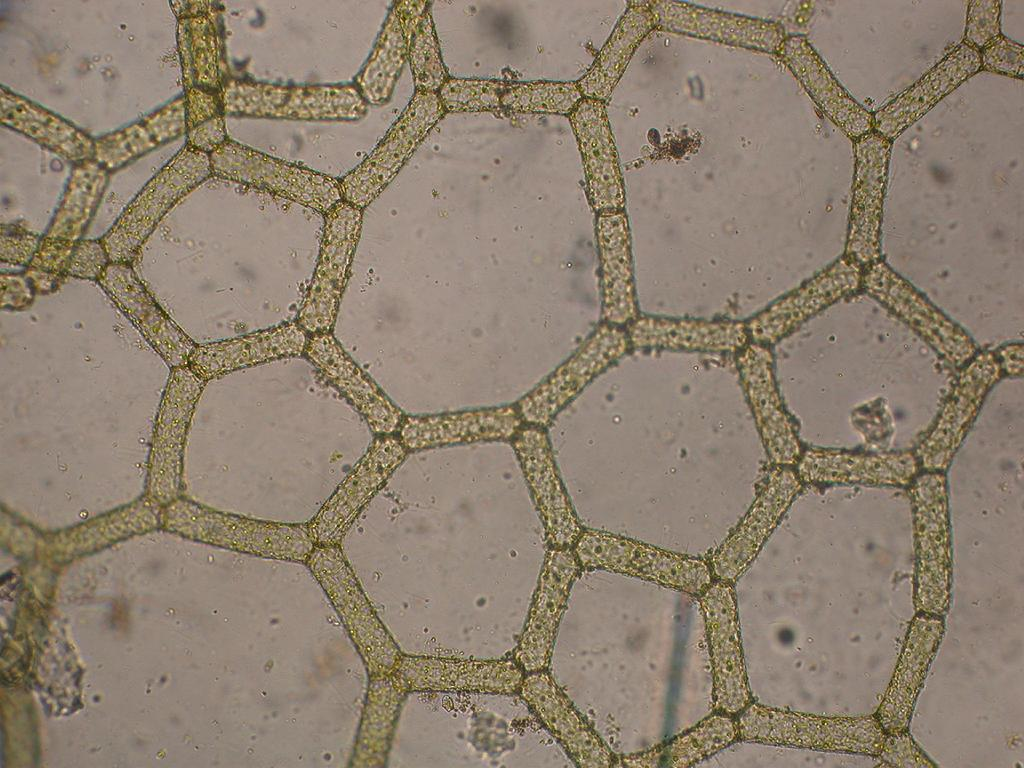 Hydrodictyon (Chlorophyceae, Chlorococcales) japanese name;amimidoro date;2006,09;Tanabe city,Wakayama pref. Japan Author;Keisotyo